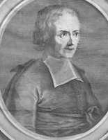 (PD by age).